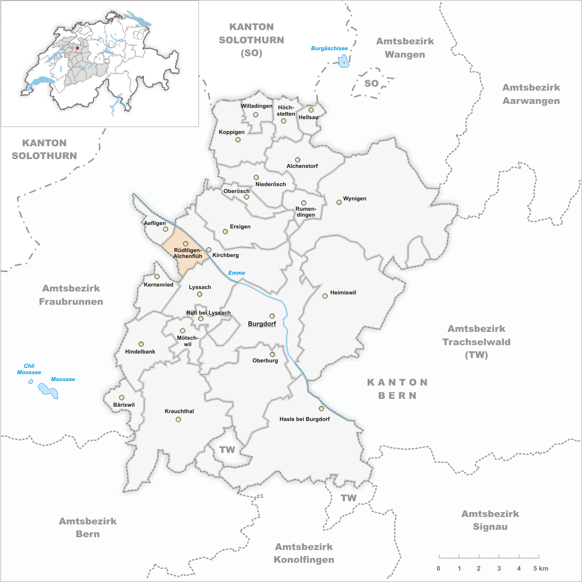 Municipality Rüdtligen-Alchenflüh